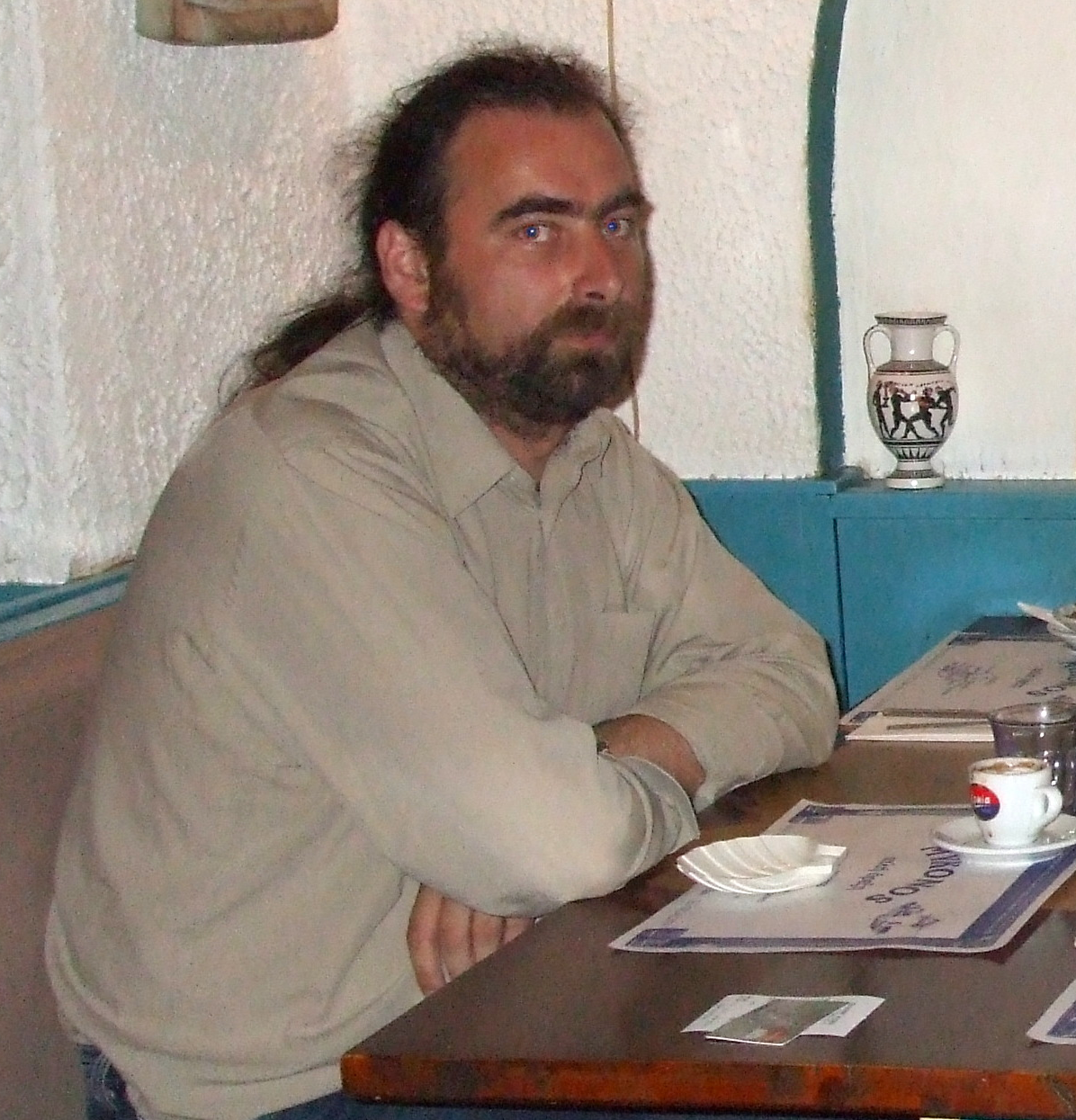 Yaroslav Blanter at a wikipedia meeting in Amsterdam.